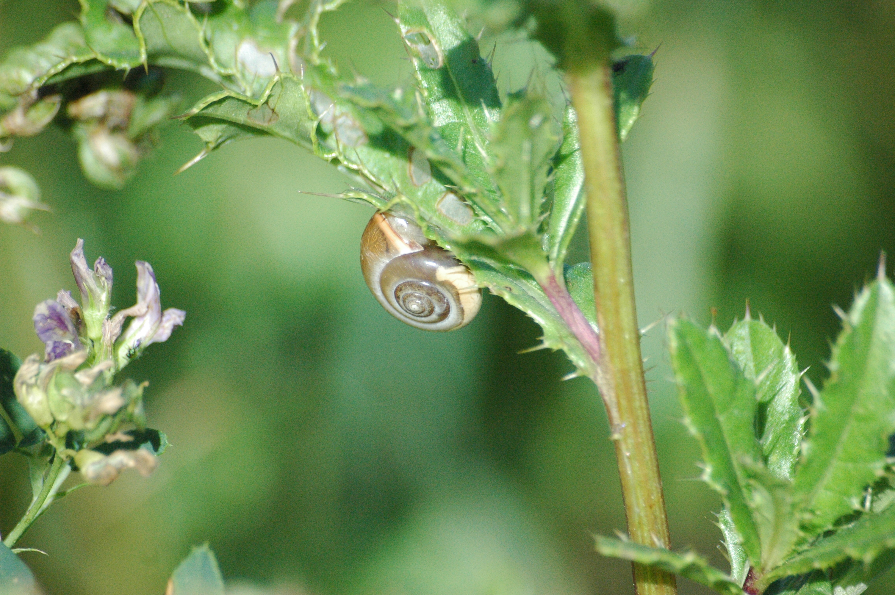 Unknown snail, 65462 Ginsheim-Gustavsburg, Germany Monacha cartusiana, determined 04 June 2011 by Francisco Welter-Schultes